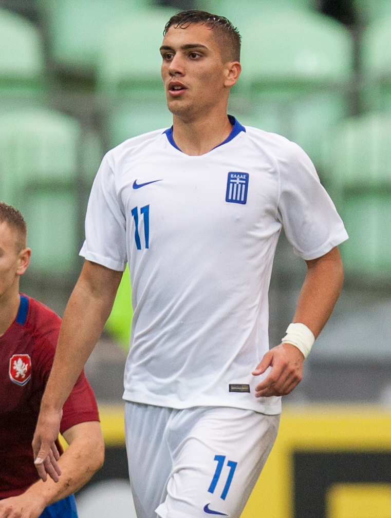 Jan Matoušek & Anaryos Kampetsis in an internatinoal association football match of European Under-21 Championship Qualifying Round between the Czech Republic and Greece, Městský stadion Karviná, Karviná District, Moravian-Silesian Region, Czechia Personality rights warningAlthough this work is freely licensed or in the public domain, the person(s) shown may have rights that legally restrict certain re-uses unless those depicted consent to such uses. In these cases, a model release or other evidence of consent could protect you from infringement claims.